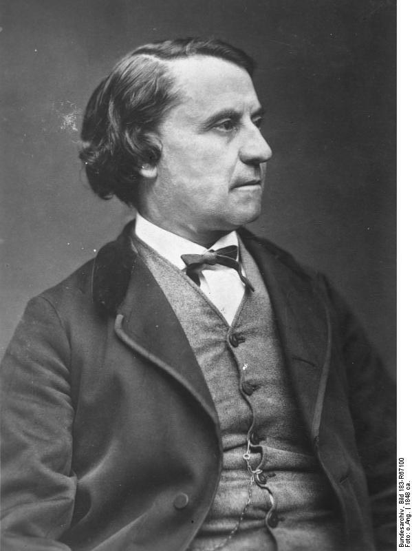 Louis Blanc: French politician and historian